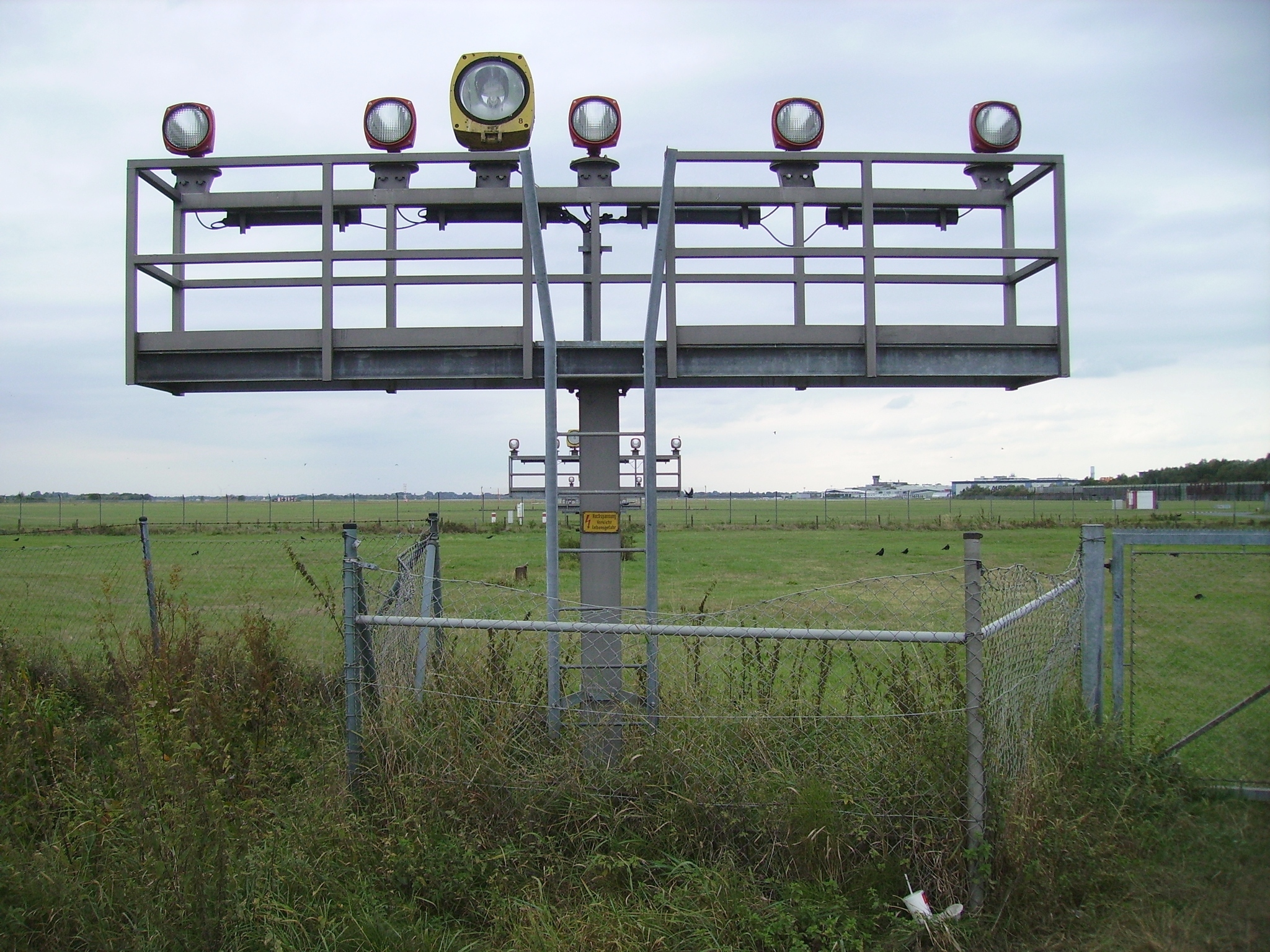 The approach lighting system at the airport of Bremen (runway 27)